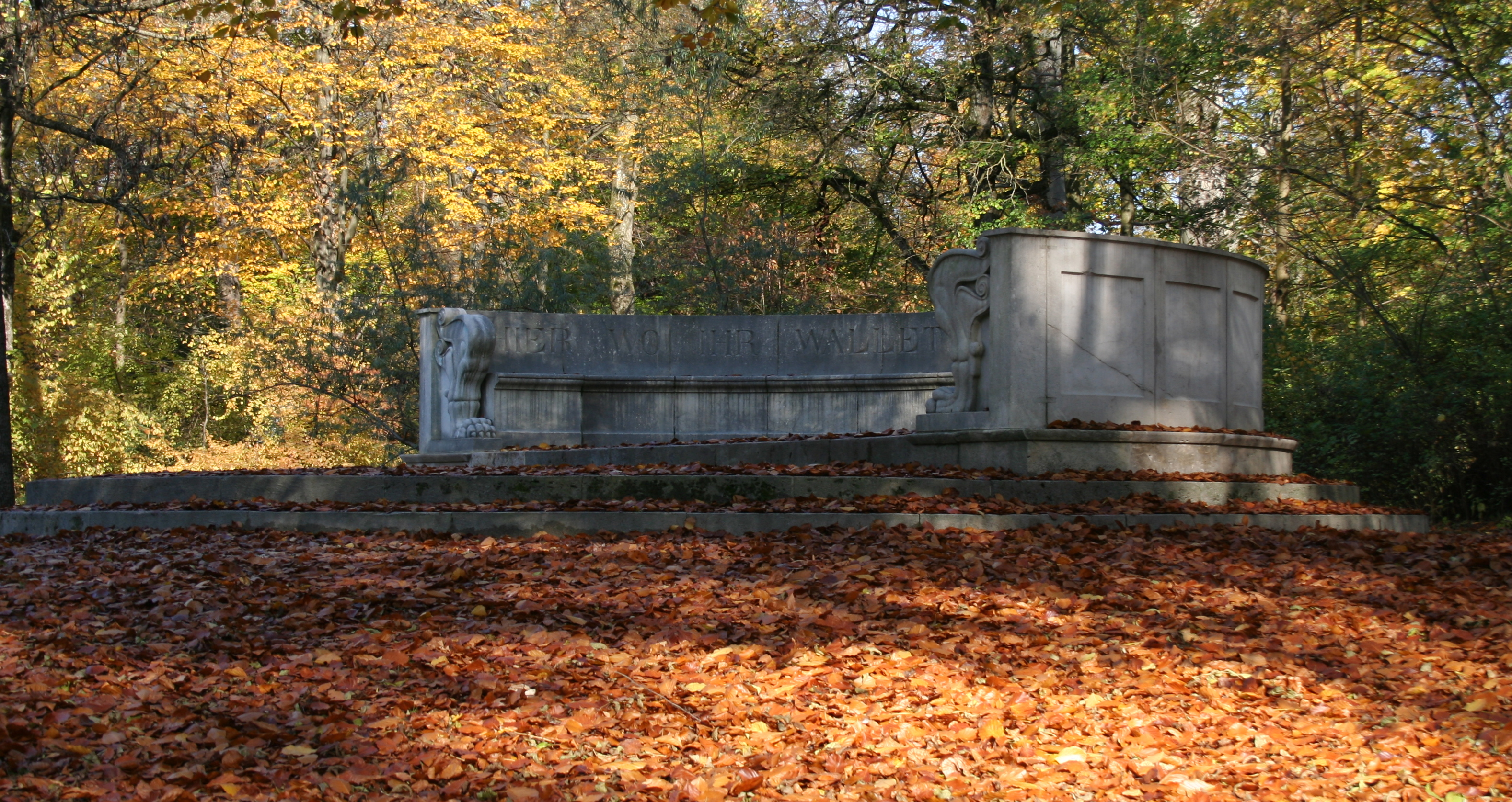 Stone bench by Klenze in the Englischer Garten, Munich